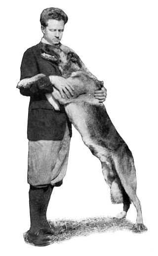 Photograph of the dog star Strongheart with his owner-trainer-director Larry Trimble